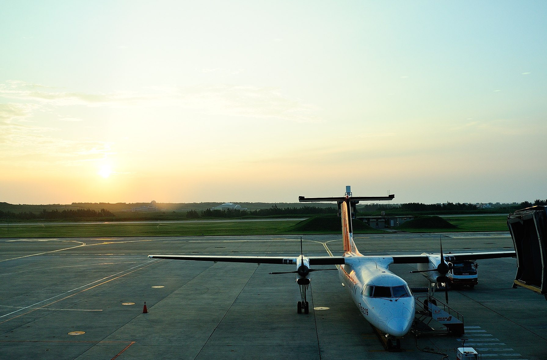 UNI Air Dash 8-Q300 (B-15219) at Magong Airport